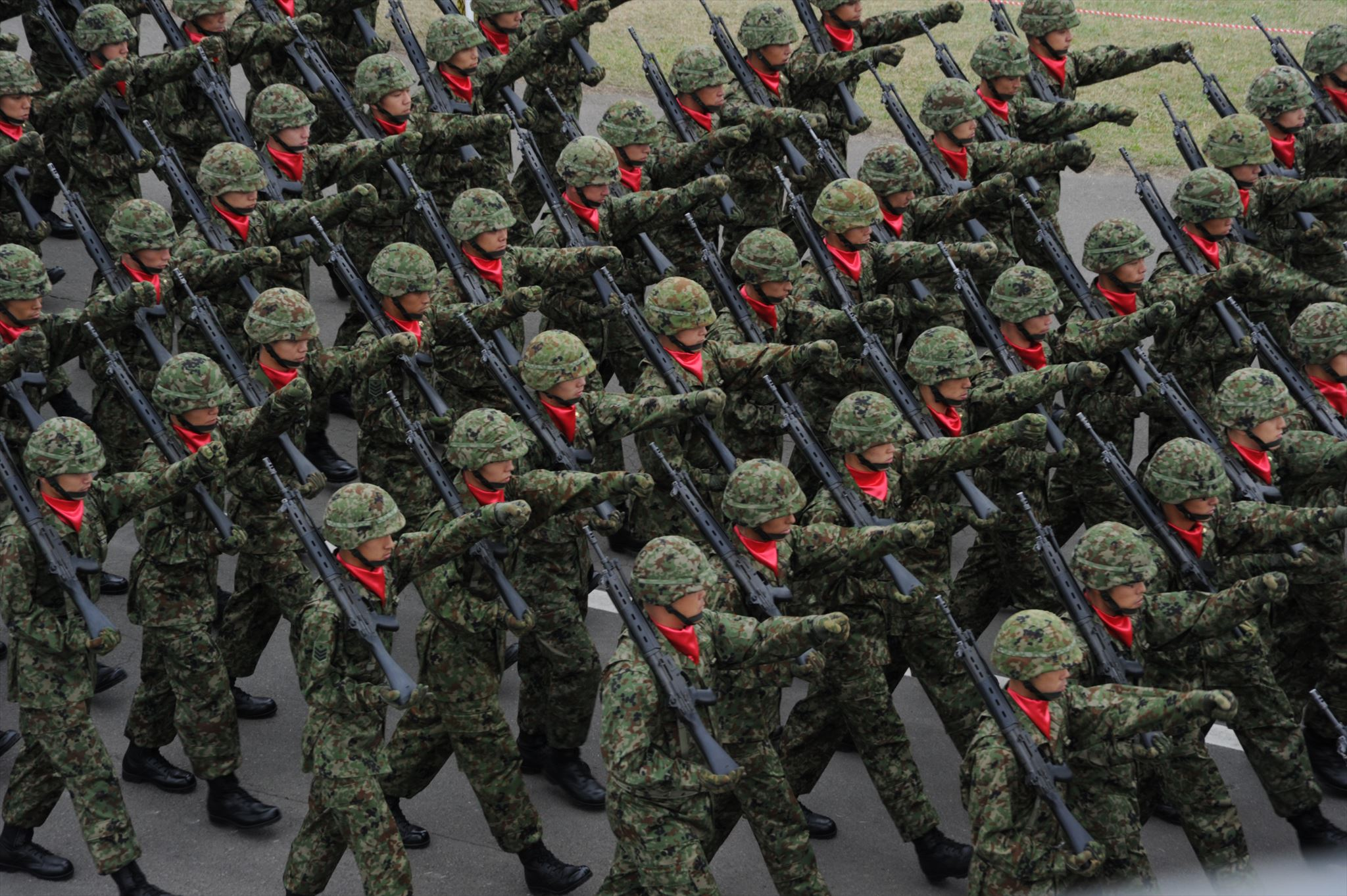 平成22年度観閲式(H22 Parade of Self-Defense Force)